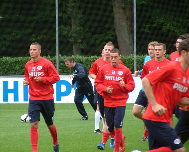 PSV Eindhoven at training center "de Herdgang". Afellay, Scheutjens, (Wouters), Dzsudzsák, Zoet, Lazović, Ramos, (Pieters).